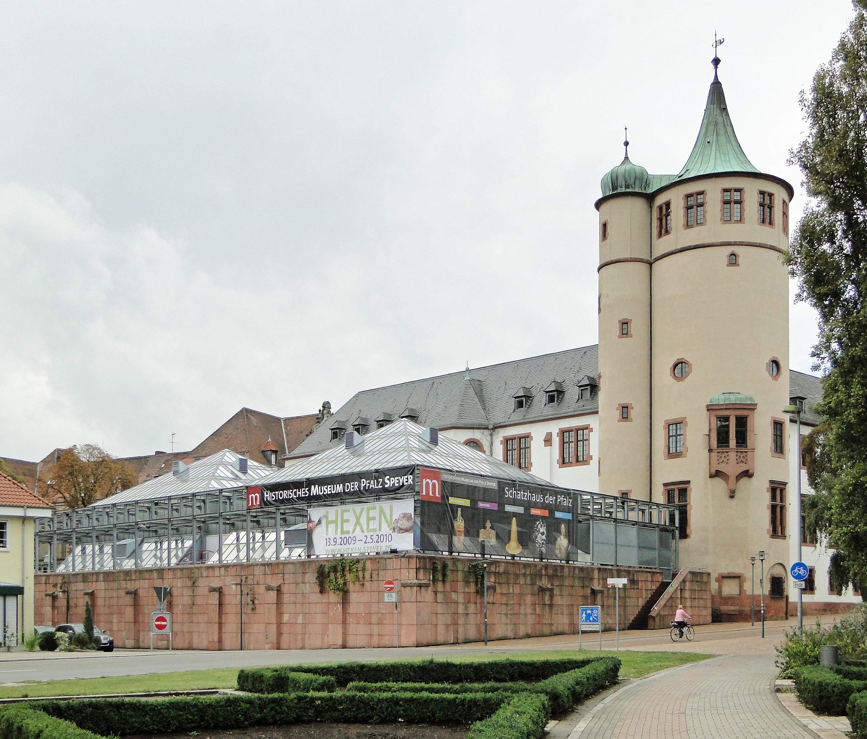 Historical Museum of the Palatinate (rear side), Speyer, Rhineland-Palatinate, Germany